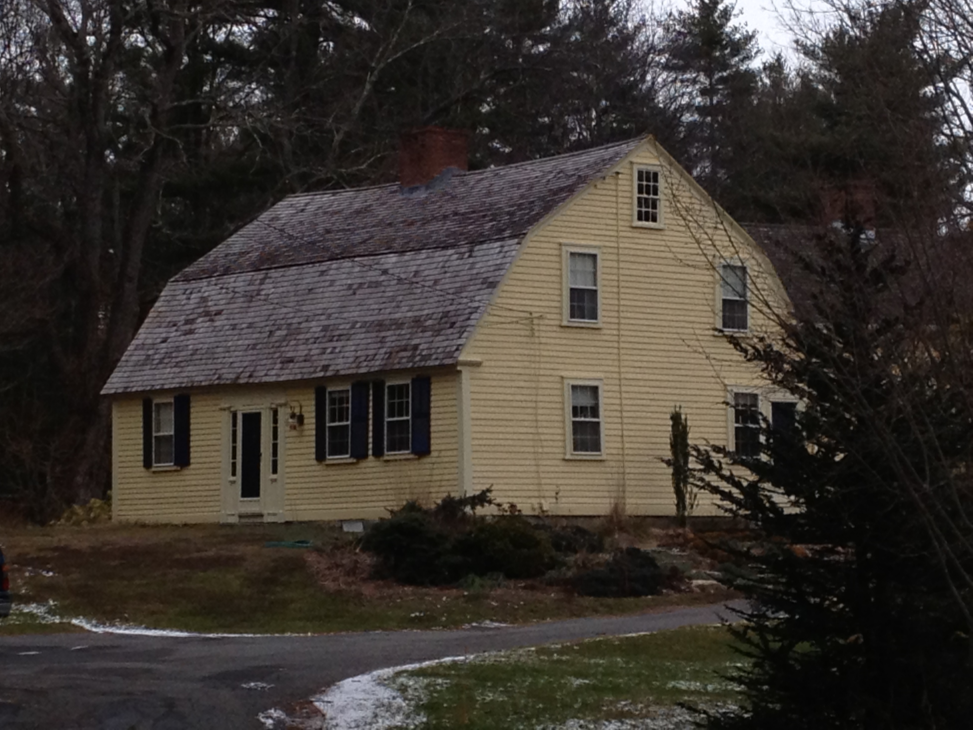 Aaron Taft House, Uxbridge, MA, birhplace of grandfather of President Wiiliam Howard Taft. Peter Rawson Taft was born here in 1785. He and his family moved later to Vermont and toward the end of his life to Cincinnati OH where the family became a powerful American Political dynasty